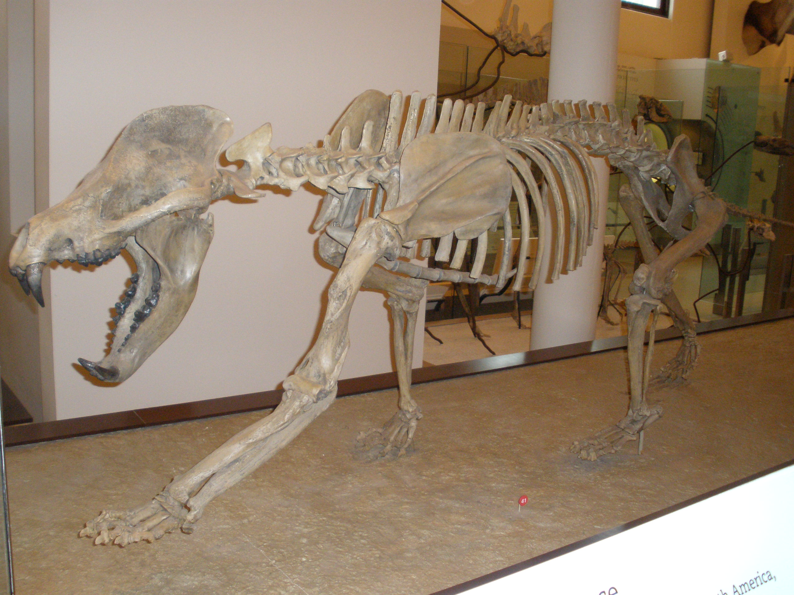 Skeleton of Amphicyon ingens, the bear-dog